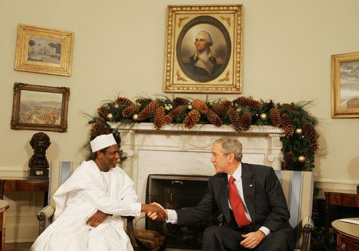 President George W. Bush shakes hands with President Umaru Yar'Adua of Nigeria, as he welcomes him to the Oval Office Thursday, Dec. 13, 2007, at the White House. Said President Bush, "Mr. President, I am impressed by your commitment to reform, your adherence to the concept of rule of law, and your belief in transparency. And I congratulate you for being a strong leader."